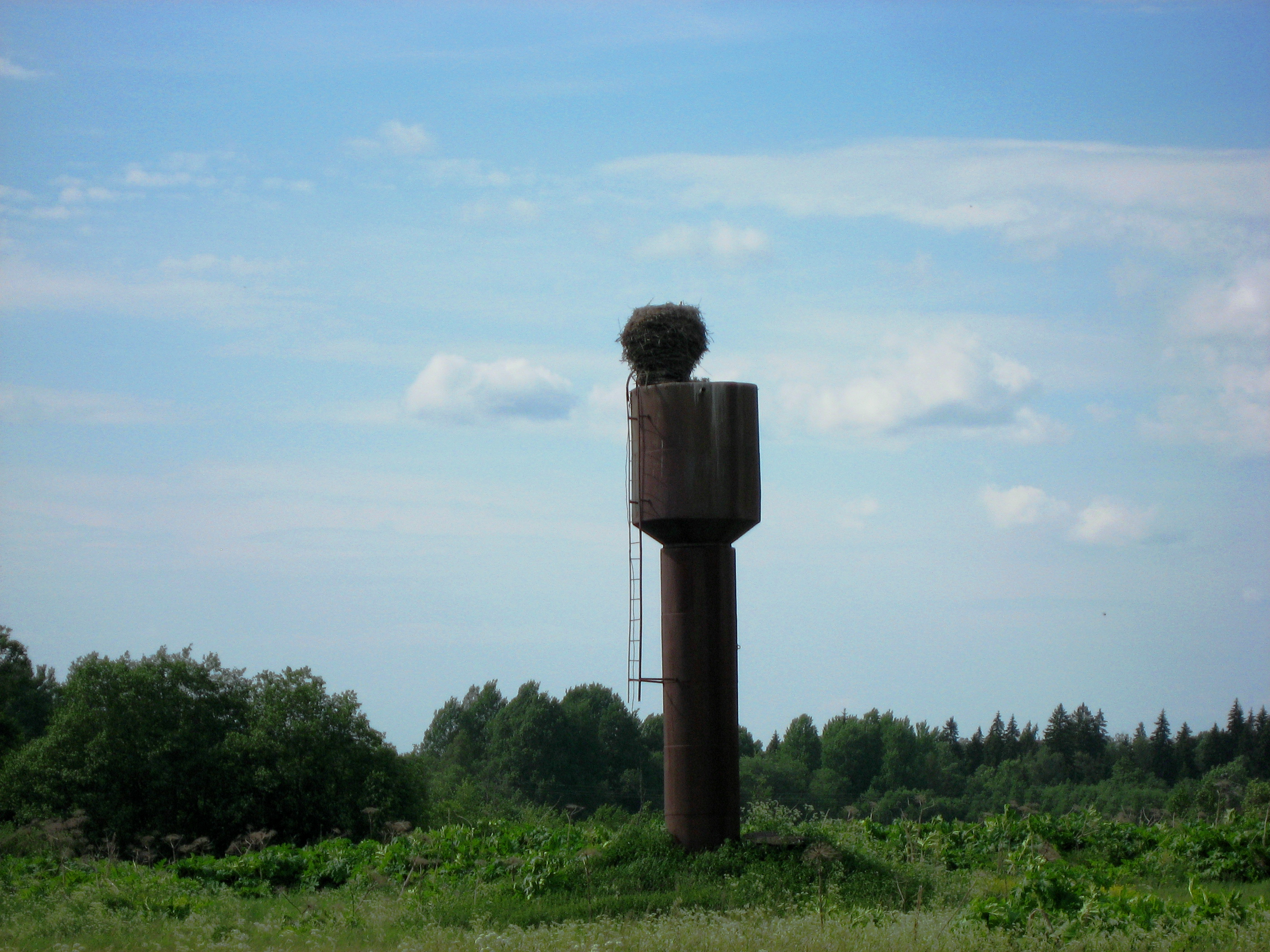 Nest of storks on a water tower in Tureya